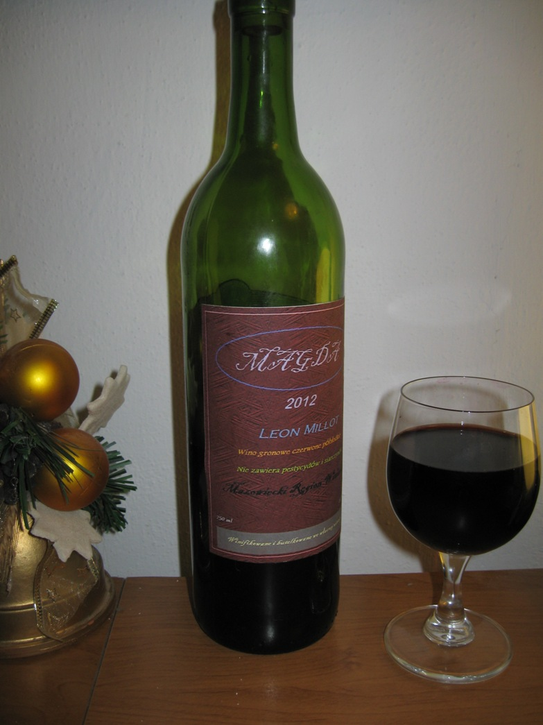 The wine varietal of Leon Millot 2012